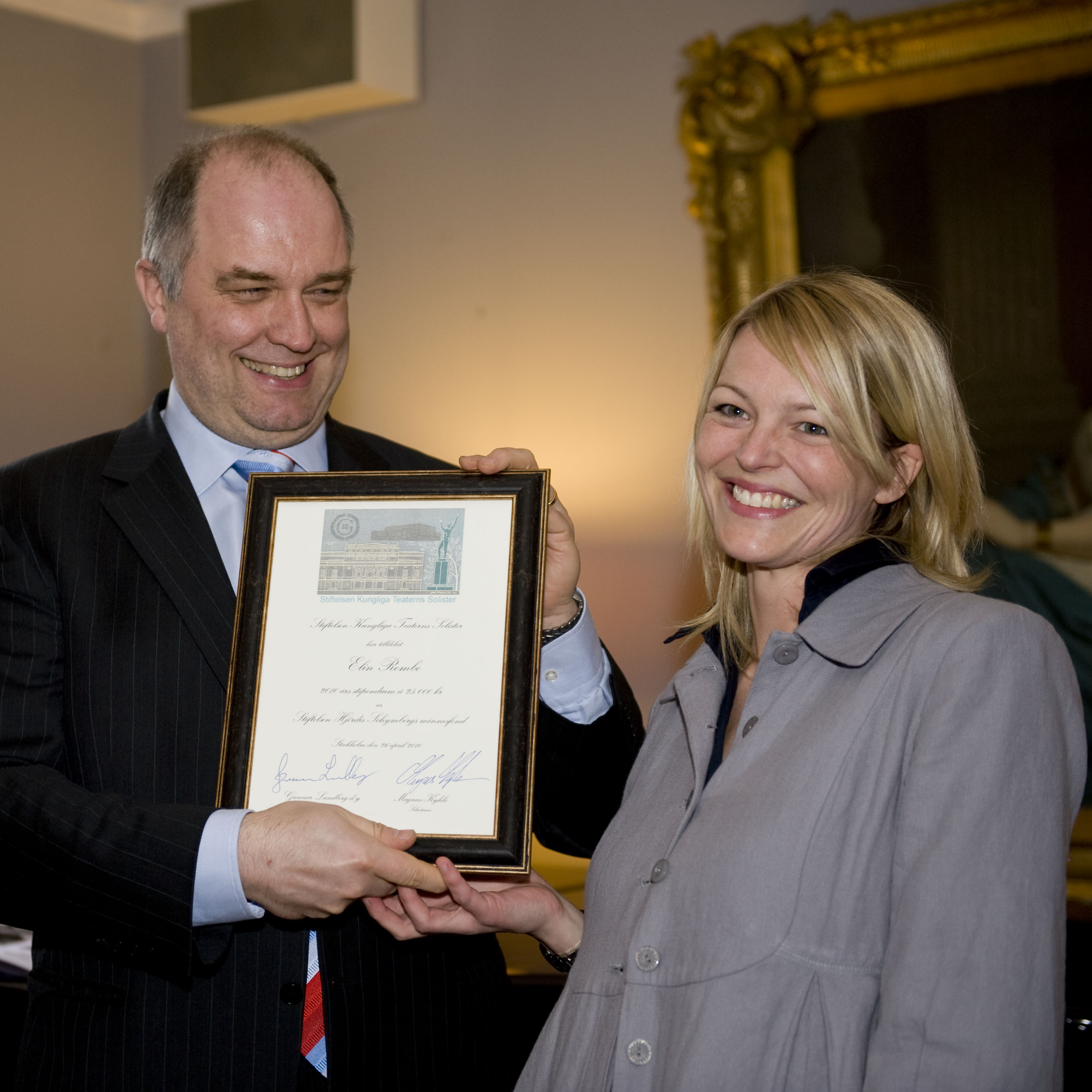 Gunnar Lundberg and Elin Rombo 2010.